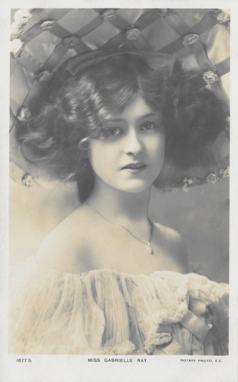 Gabrielle Ray as Dolly Twinkle in the UK tour of The Casino Girl (1900)